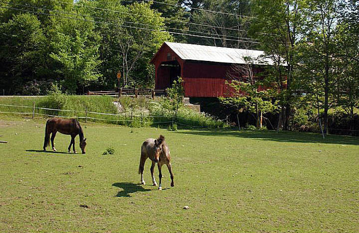 LOWER/NEWELL COVERED BRIDGE OVER COX BROOK IN NORTHFIELD FALLS; 1872, 54’ QUEEN